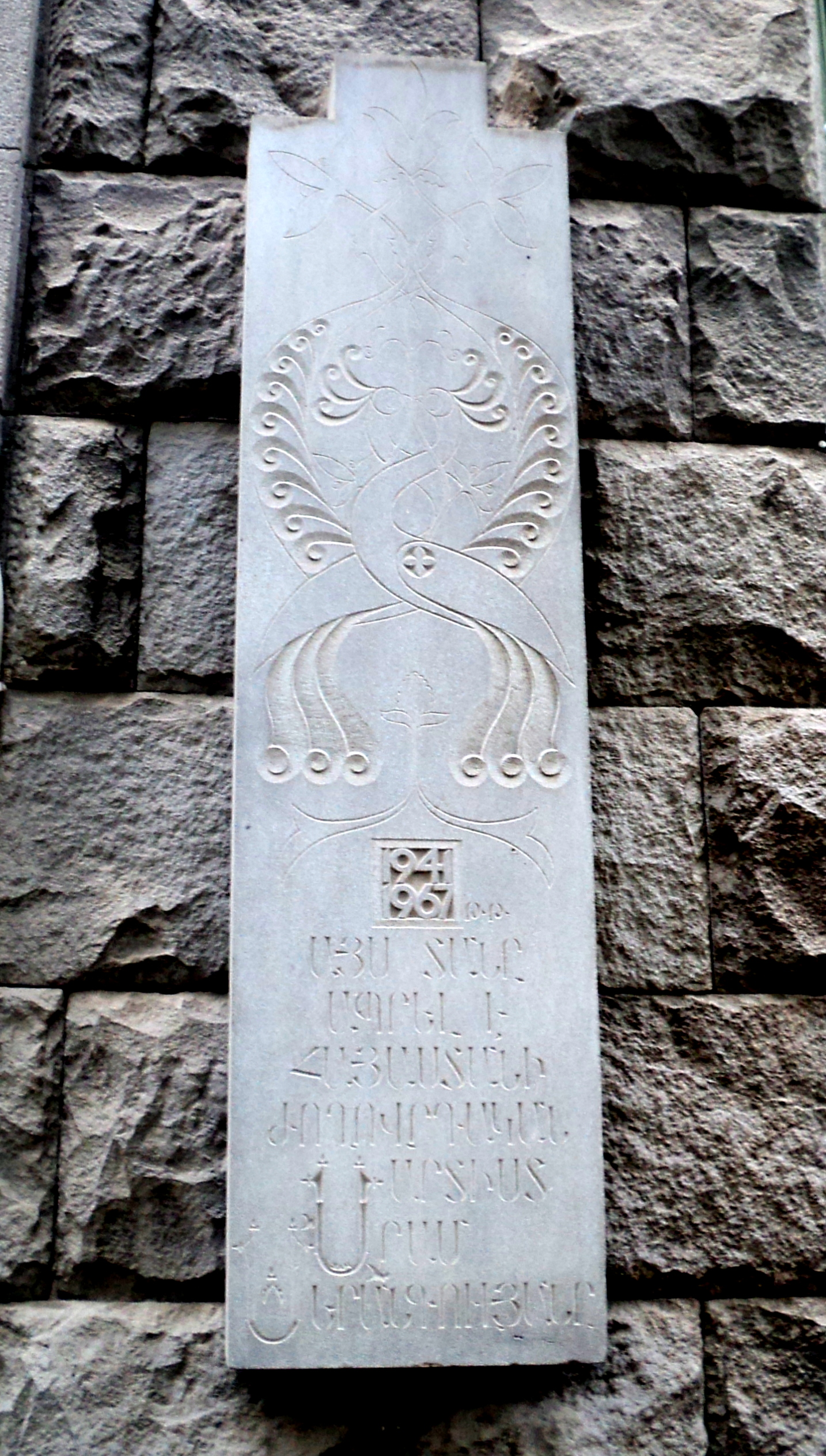 Aram Merangulyan's Plaque